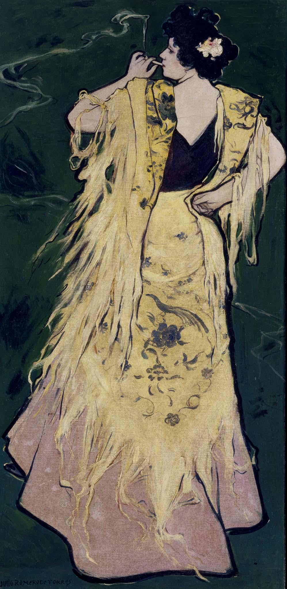 Sketch for advertisement